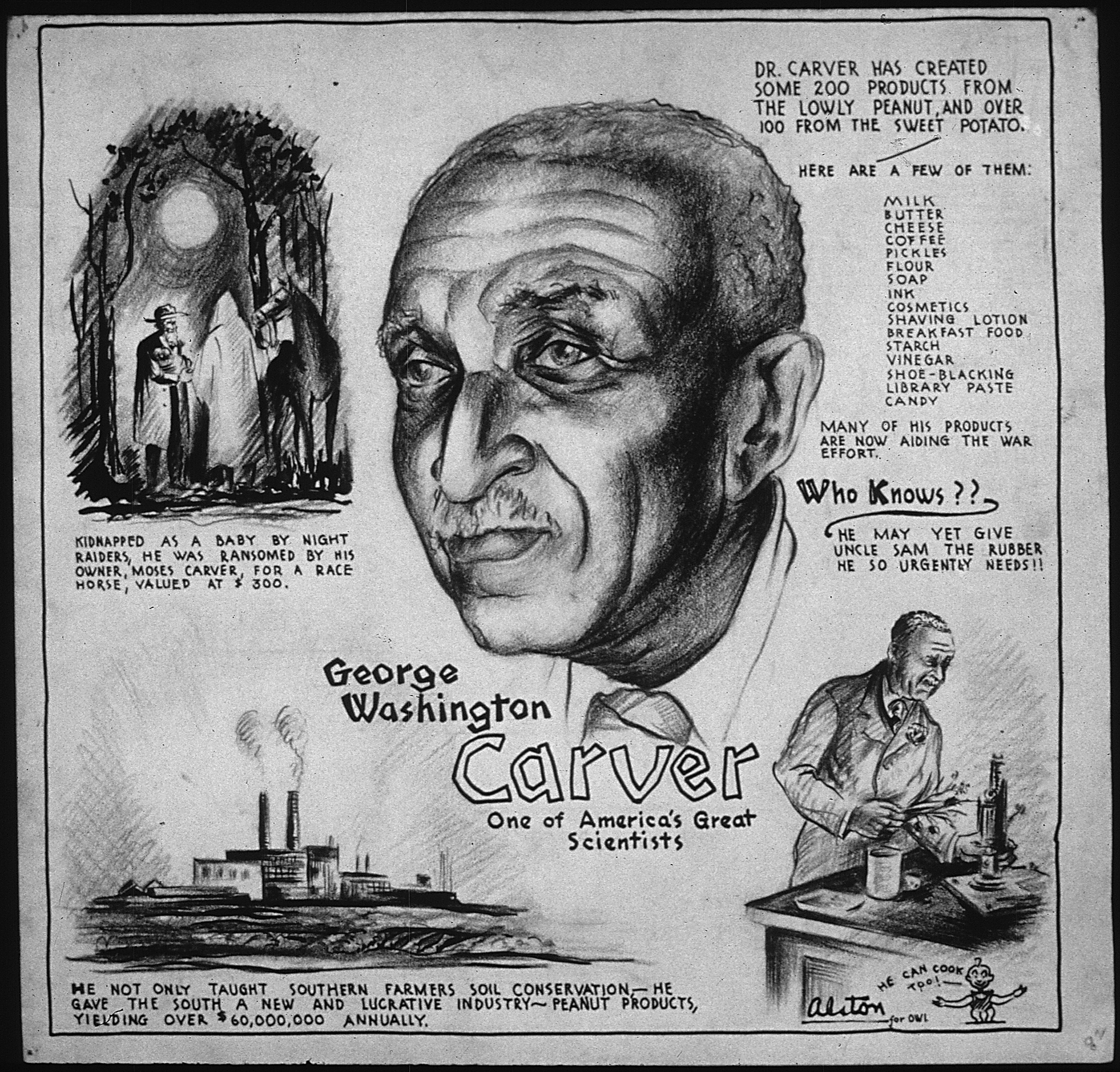 Scope and content: George Washington Carver - with biographical paragraphs.